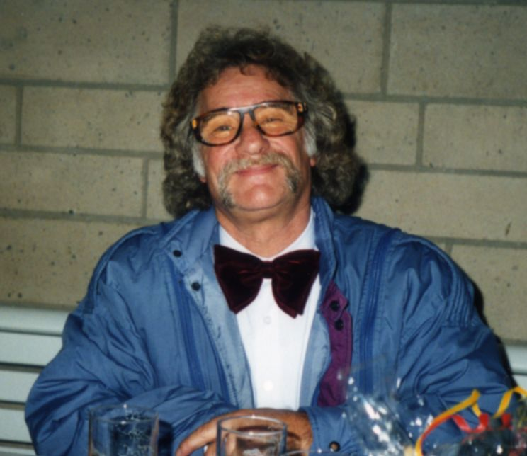 Hans Süper junior, german carnevalist legend (Cologne)